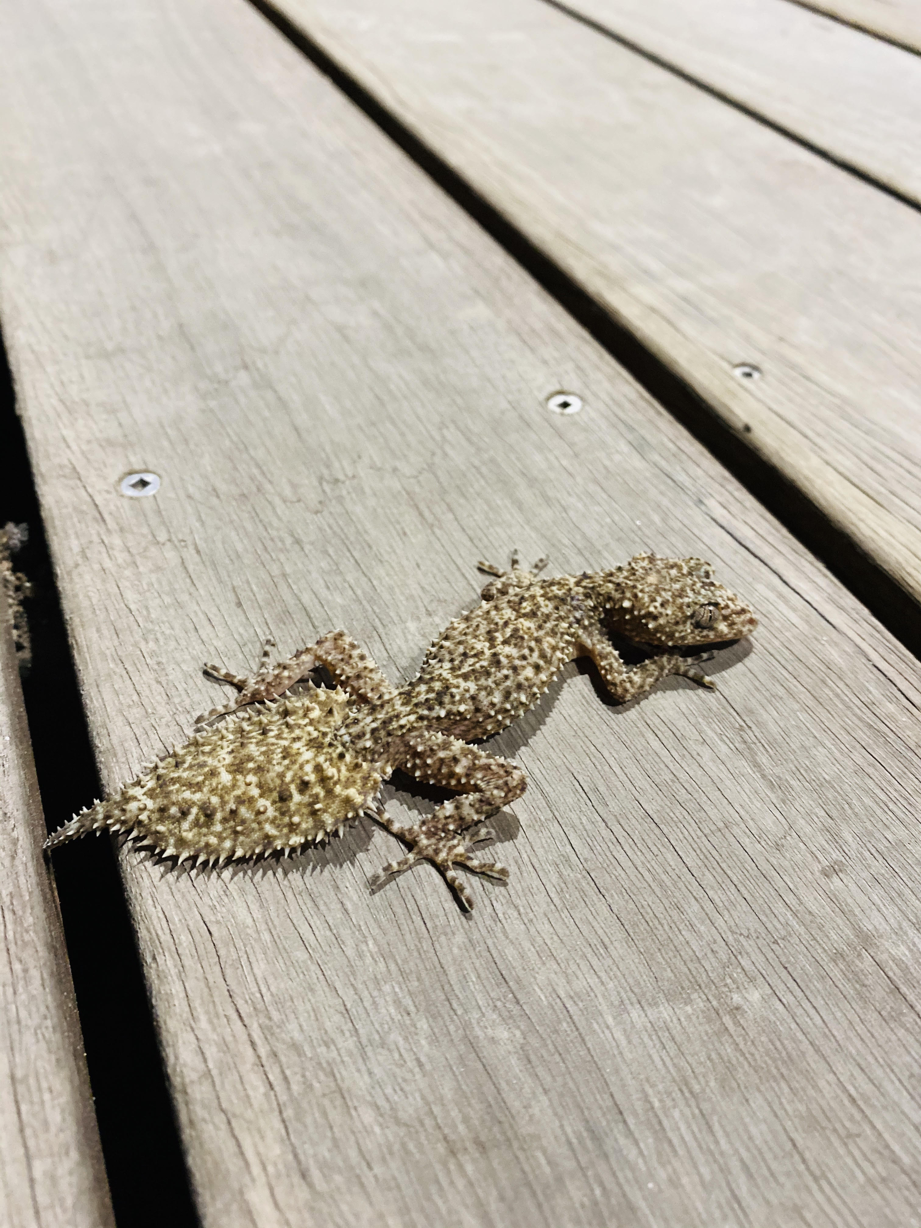 Taken on front deck in East Ryde